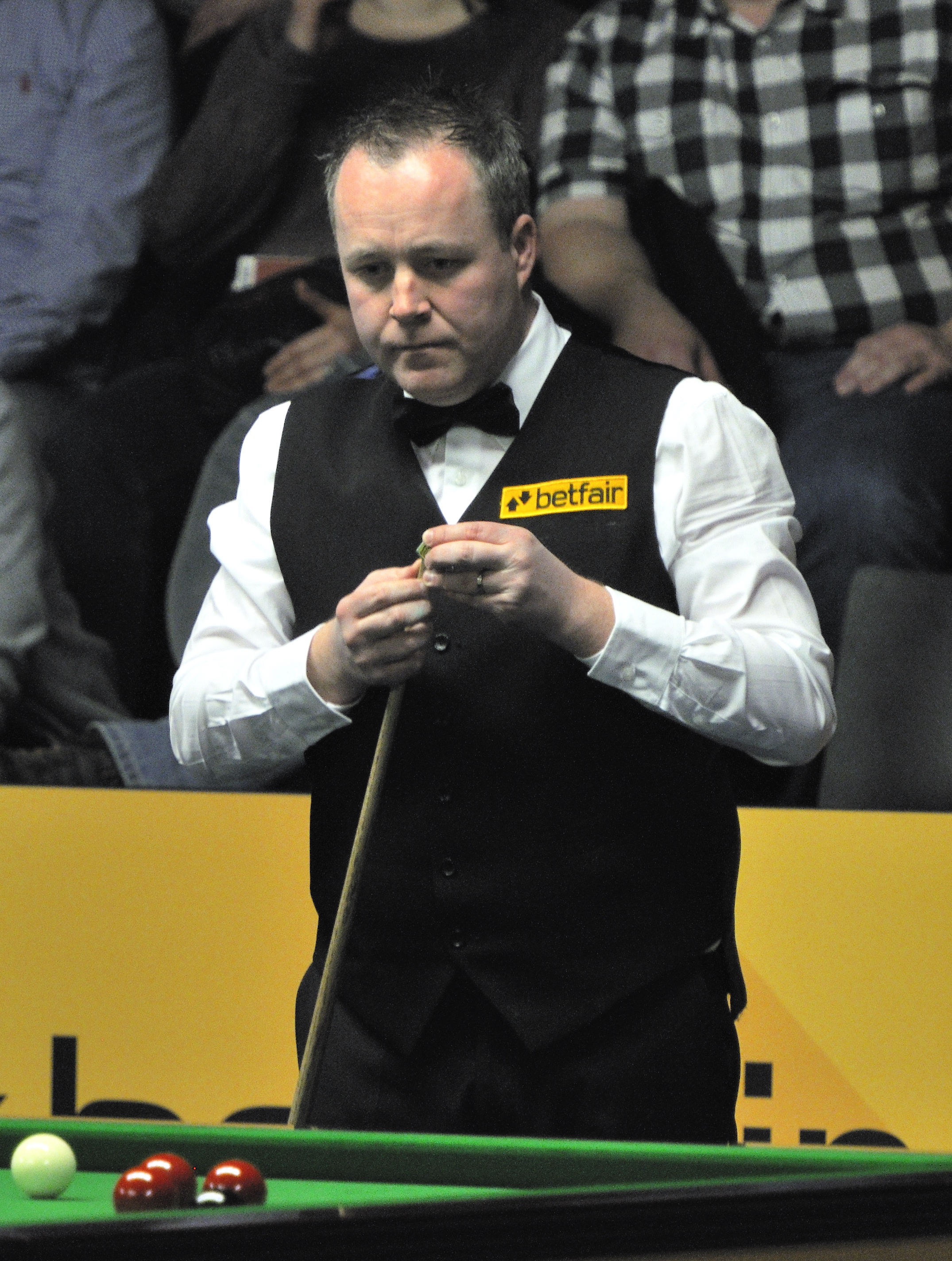 Picture taken in Berlin during the Snooker German Masters in 2013. John Higgins.